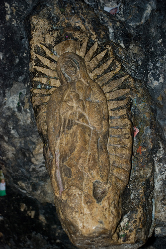 Our Lady of Guadalupe of El Chorrito